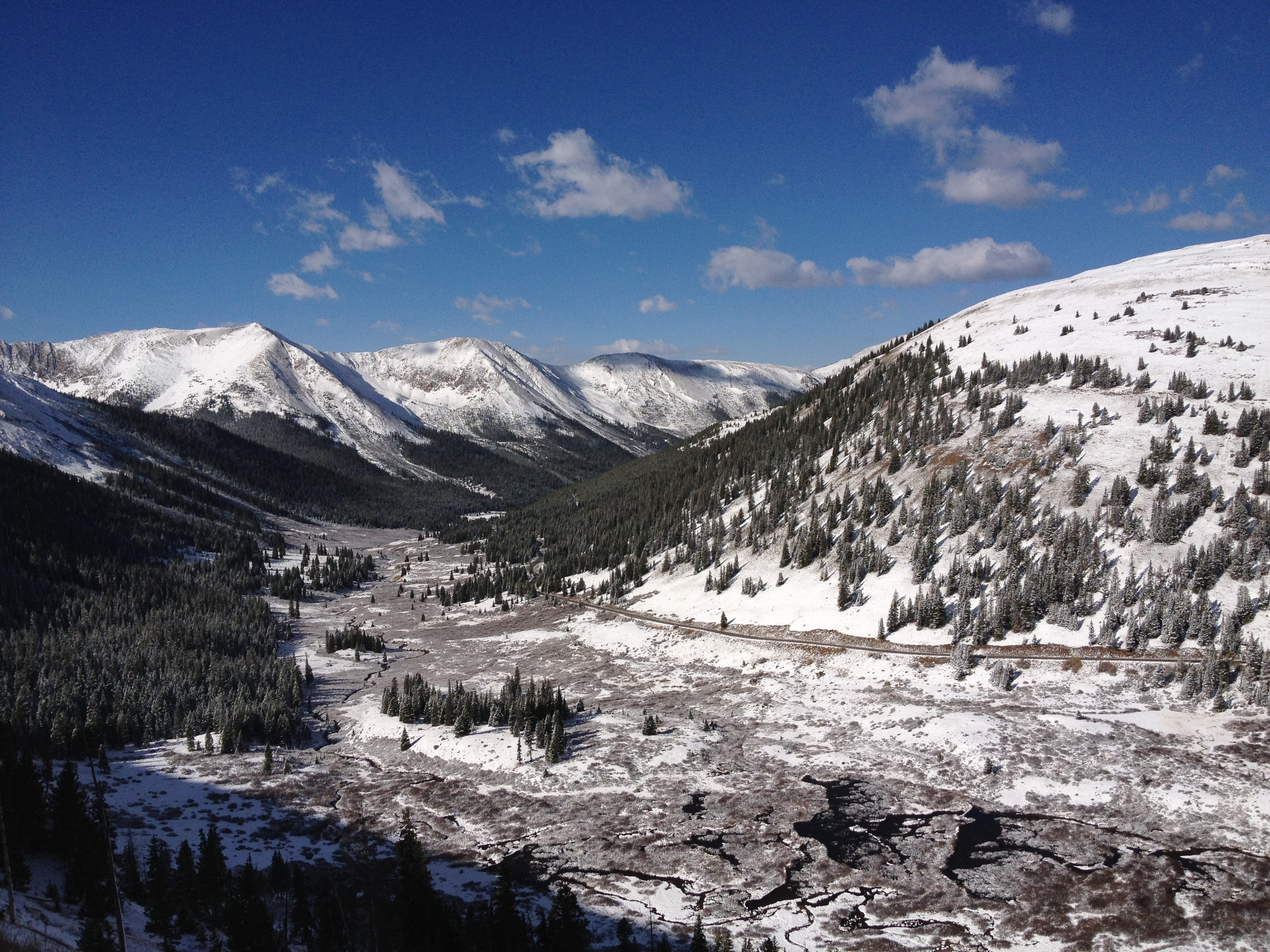 Landscape in Central Colorado, south of Aspen